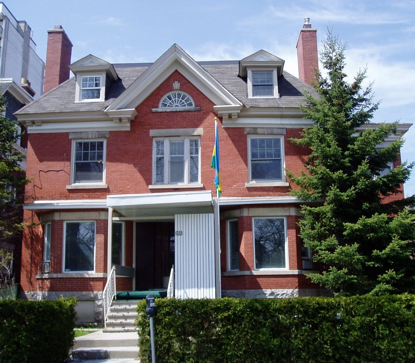 Former high Commission of Rwanda in Ottawa